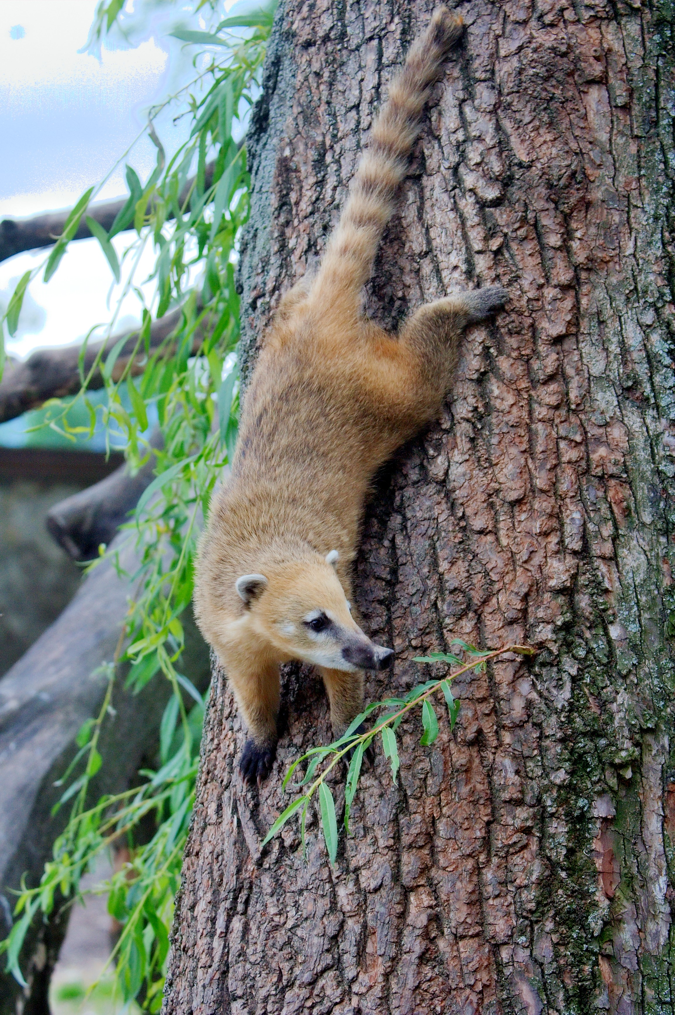 Coati